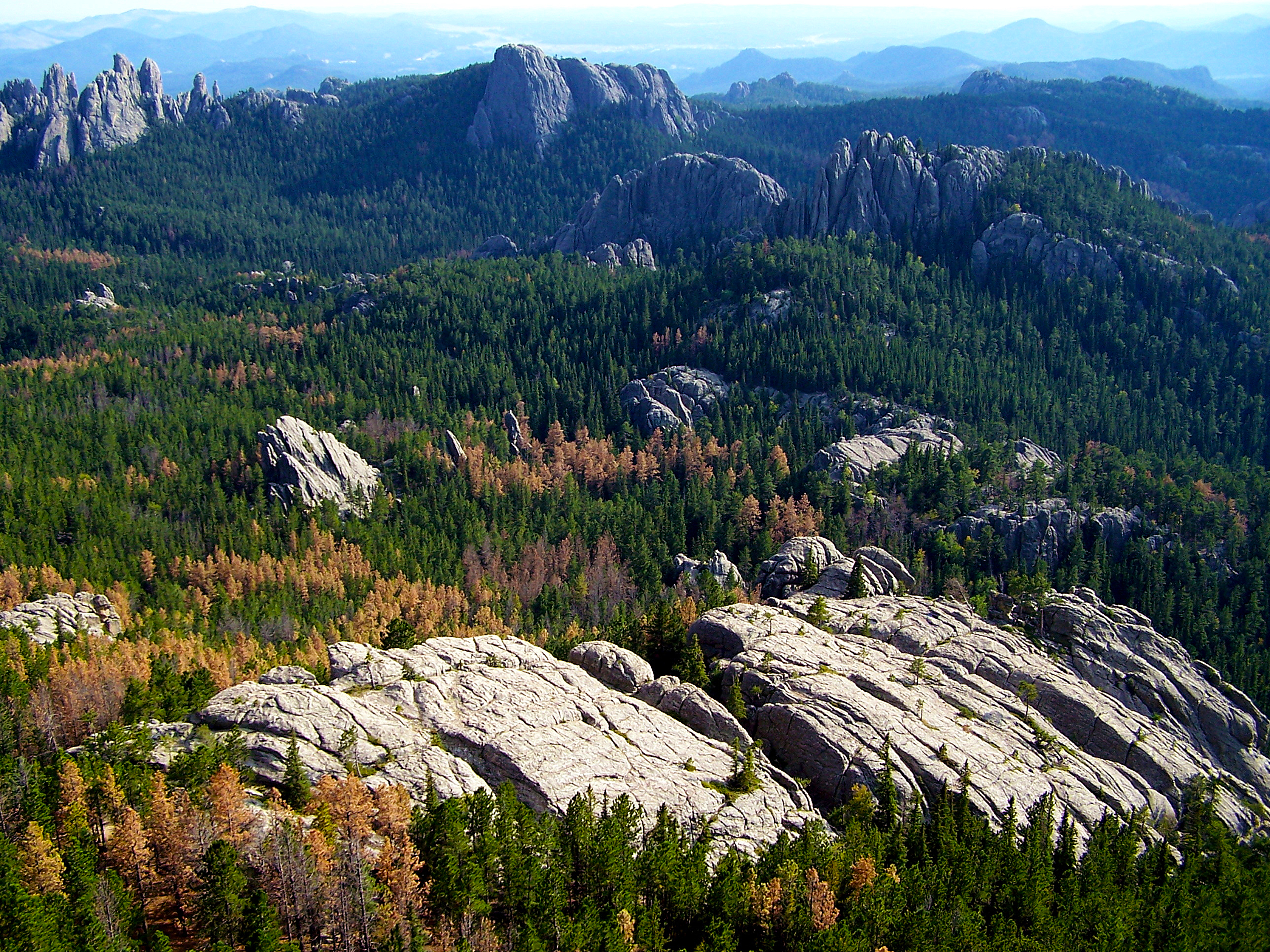 2007 custer south dakota harney peak